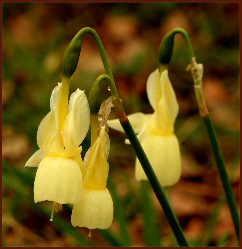 Narcissus triandrus subsp. lusitanicus (Original: 399821516_65d125c2e9_b.jpg) A rare wild Narcissus (uma planta selvagem rara) which grows in a small area near Côja in Portugal next to the river Alva (perto do rio Alva). Sometimes has one, two and occasionally three heads. The whole plant stands about 5 inches (130mm) tall with the visible yellow part about 1 inch (25mm) long. Growing in open space and flowering in February. Canon EOS 350D with Canon EFS 60mm macro. f/14 1/30second ISO 200. Joby gorillapod (used as a low level tripod with the legs stretched straight out - very handy) and wireless release in overcast daylight with custom whitebalance. It was difficult catching them still as it was fairly windy. Brought the colour levels in slightly and bordered using Gimp/Linux. If anybody has any more information on which natural hybrid these are I would love to know.